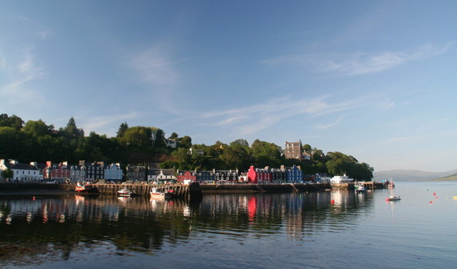 Not Balamory but Tobermory The trouble with travelling with people with small relatives is that this view brings on a chorus of "What's the story Balamory?". This photograph was taken on an unusually calm day.